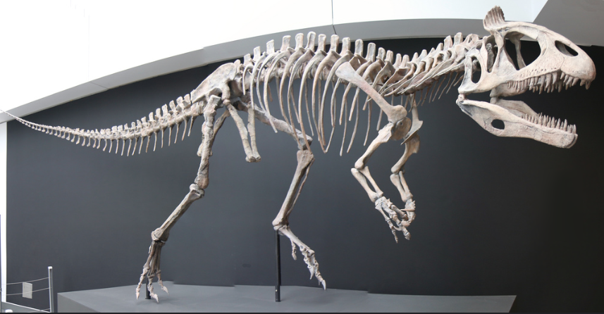 Cryolophosaurus ellioti mounted at the Ultimate Dinosaur exhibit in Vancouver, BC. This mount shows the updated skull. The snout is modeled after Dilophosaurus whereas previous skull casts were based off of Allosaurus.